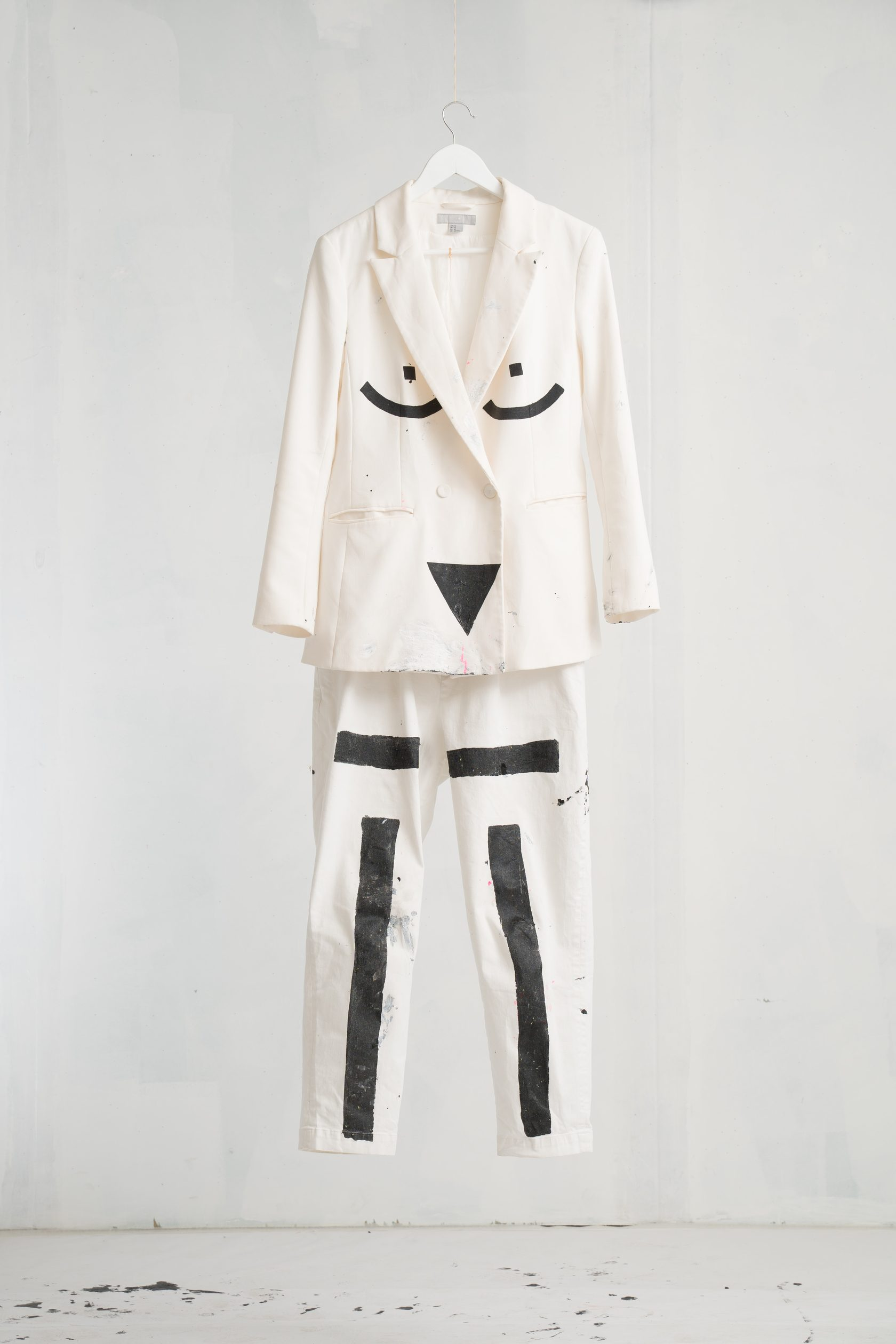 Object from collection of The Tretyakov Gallery